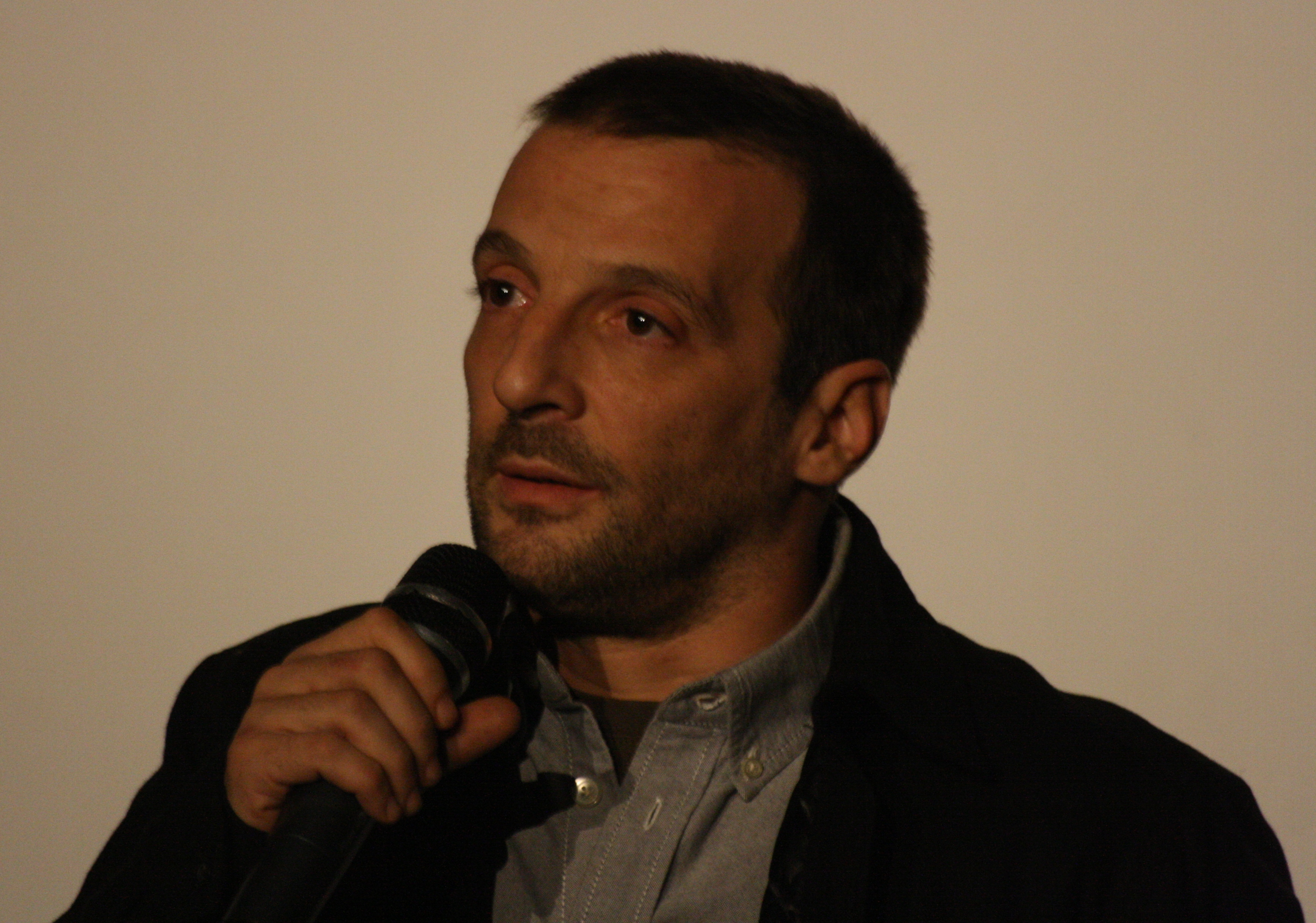 Mathieu Kassovitz, french director, during the preview of the movie L'Ordre et la Morale at the movie theater UGC Cité Ciné SQY in Saint Quentin en Yvelines, France.